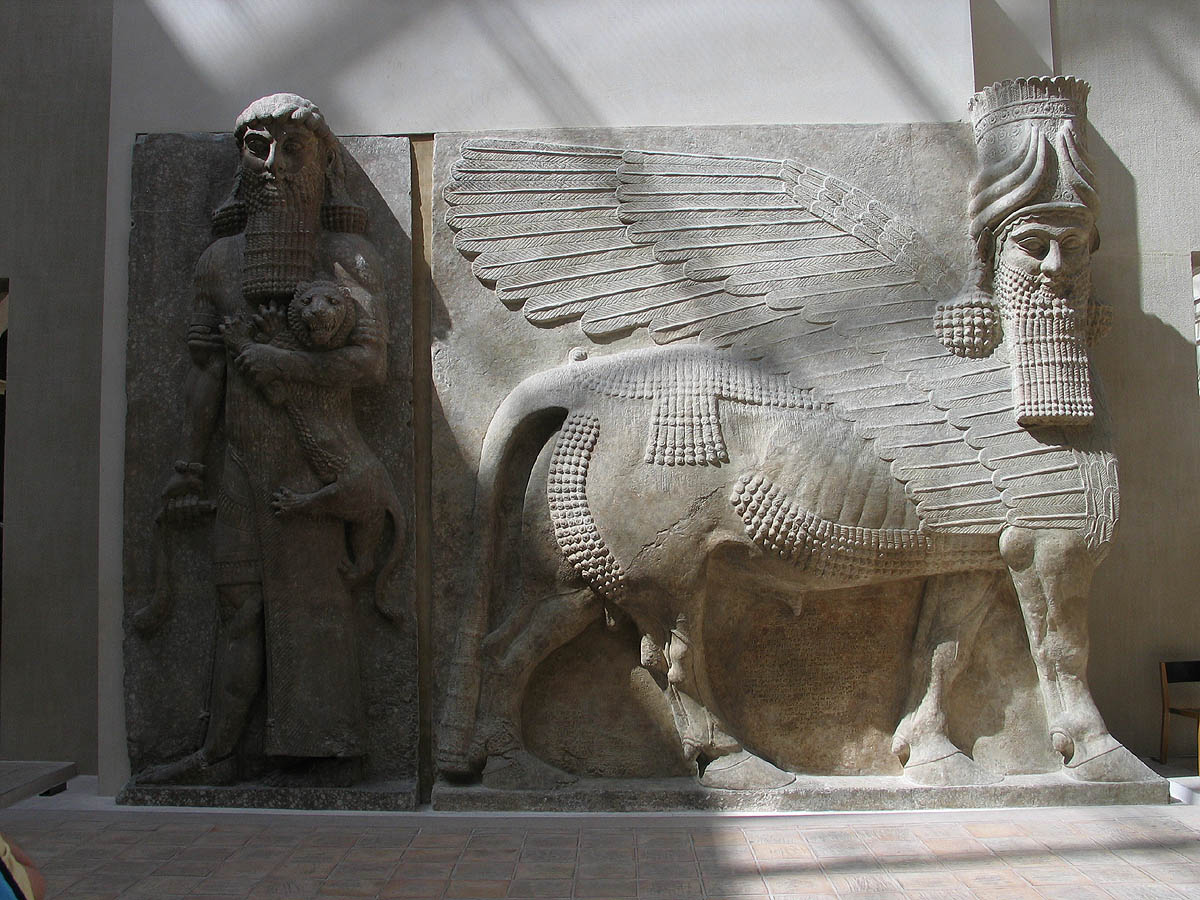 Statue aus Khorsabad (Musée du Louvre) Photograph: Luidger Hero mastering a lion-AO19861 Reproduction of a winged bull with human head-AO 30043